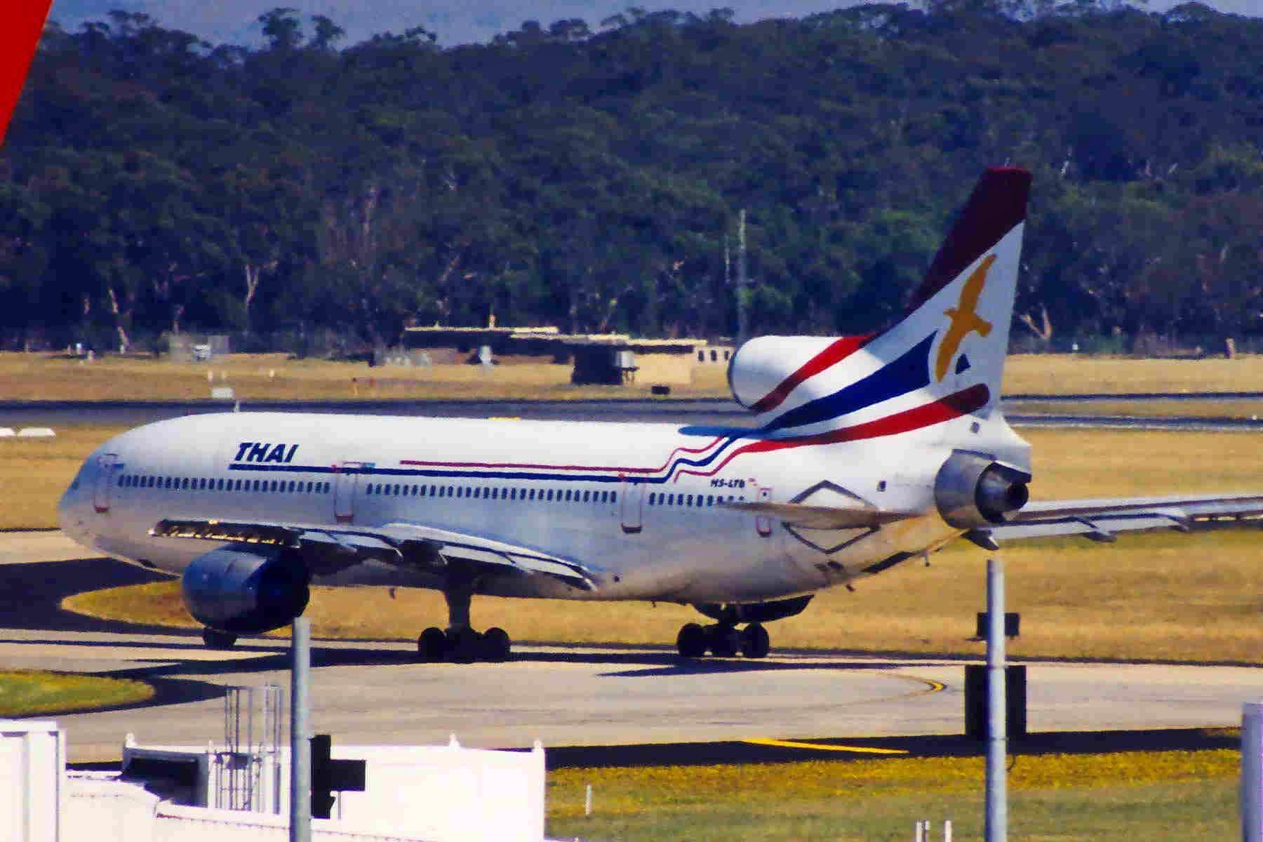 Orient Thai Airlines